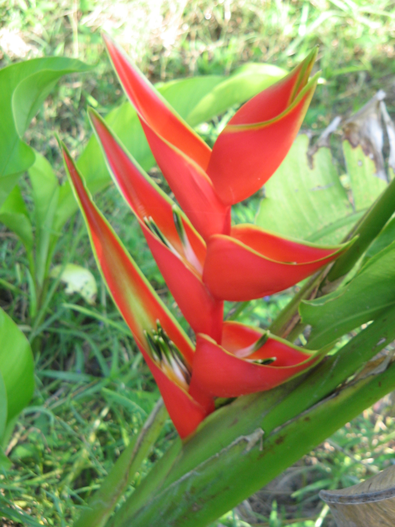 Heliconia bourgaeana